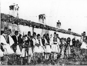 The wedding of Ilias Farmakis' son in Blatsa